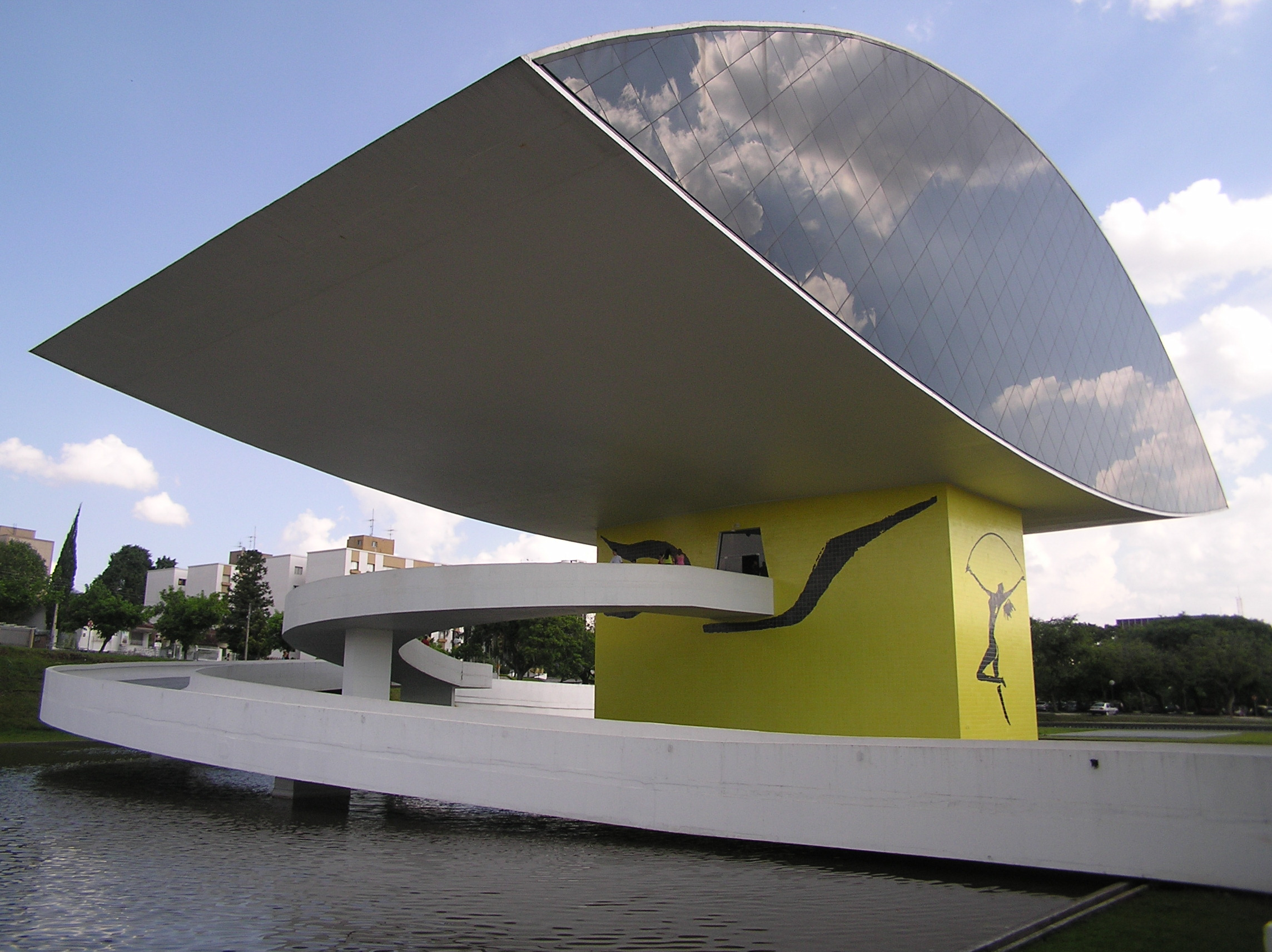 Oscar Niemeyer Museum